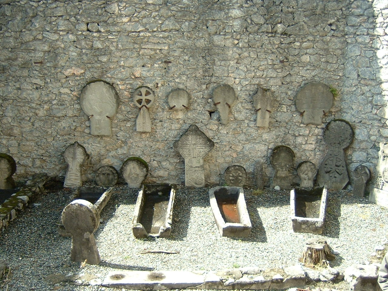 Lourdes : castle, sarcophagus from the necropolis which extended between the castle and the old Saint Pierre church